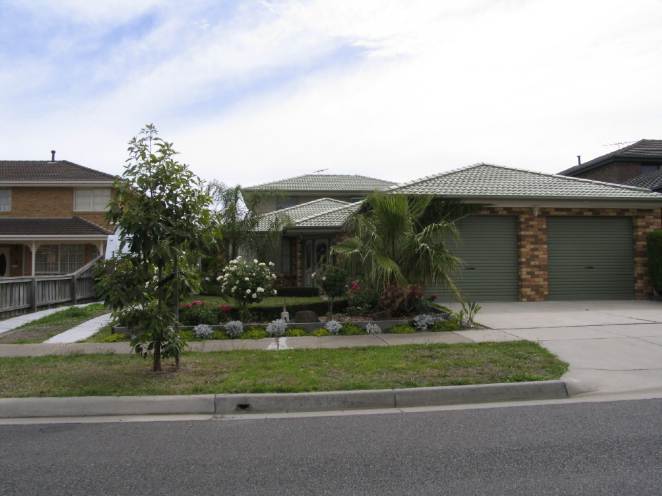 The Kath & Kim family home at Patterson Lakes, south-east Melbourne, Australia.